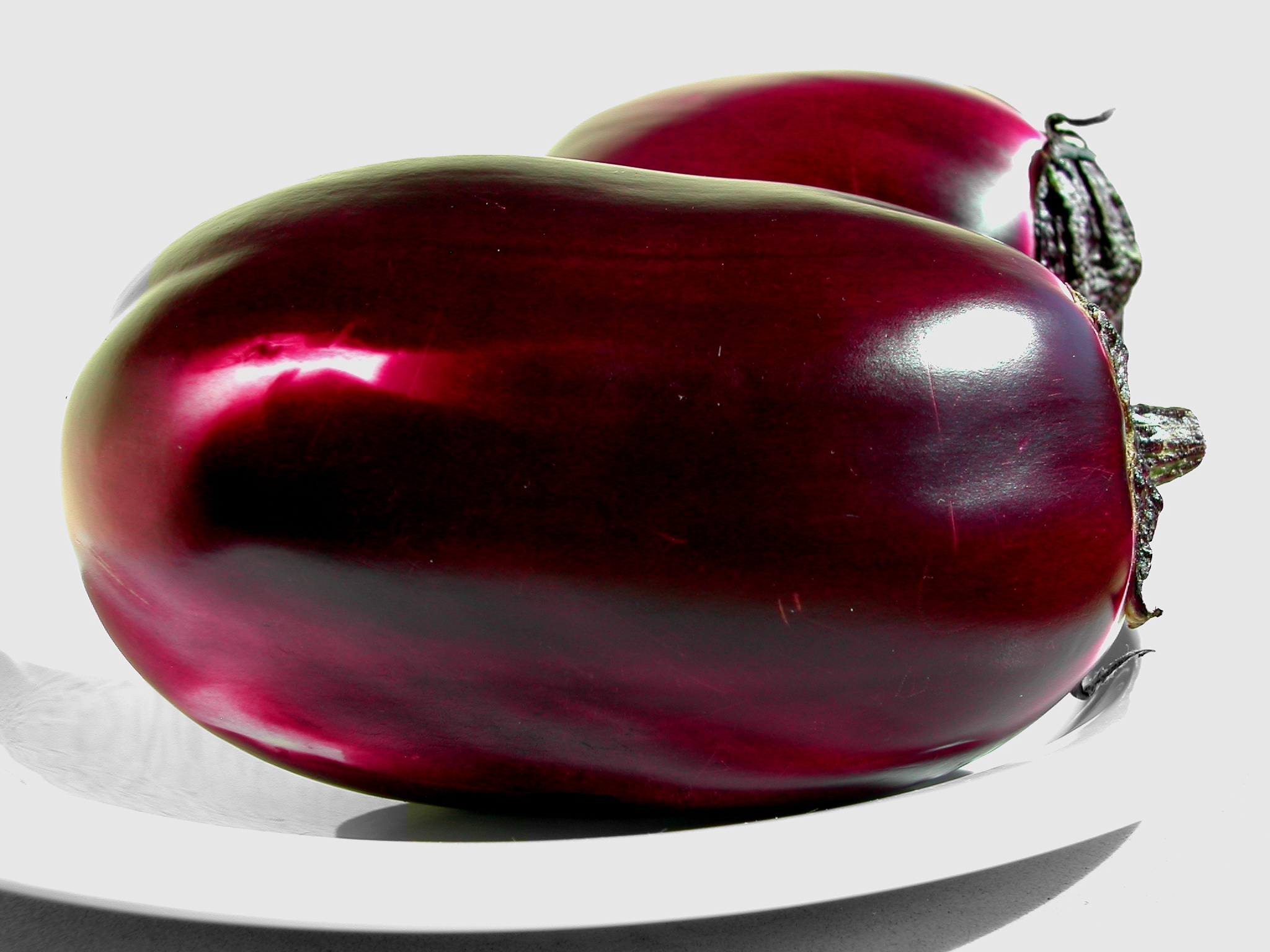 Solanum melongena